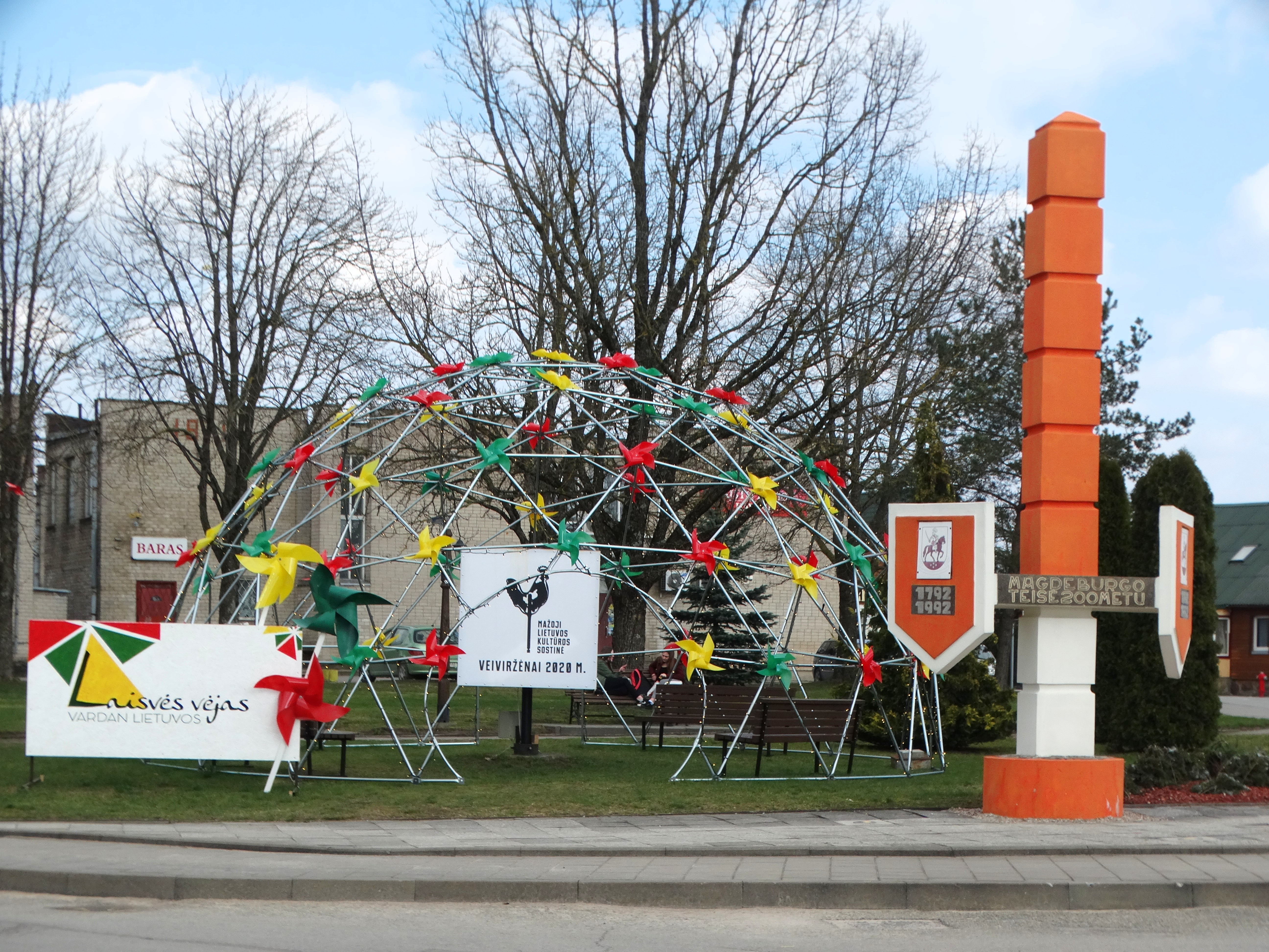 2020 cultural capital, Veiviržėnai, Klaipėda District, Lithuania